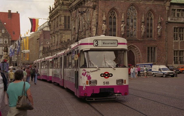 Tram on Route 3 passing Bremen Rathaus